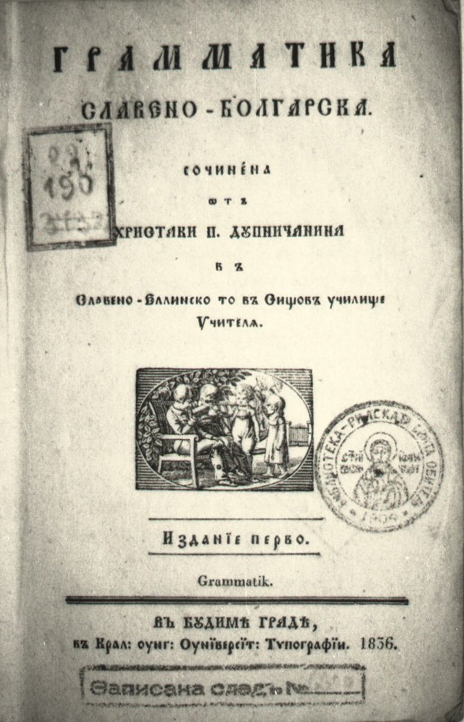 This photo is provided by the Historical Museum in Dupnitsa and is included in the album "Dupnitsa through the centuries" („Дупница през вековете“). Dupnitsa Municipality, Historical Museum - Dupnitsa. ISBN 978-954-8187-89-3.